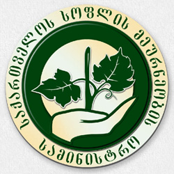 Georgia Ministry of Agriculture logo